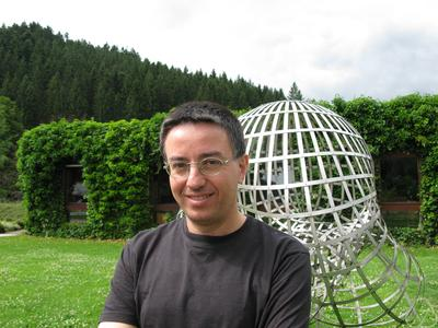 Photo of Giovanni Alberti